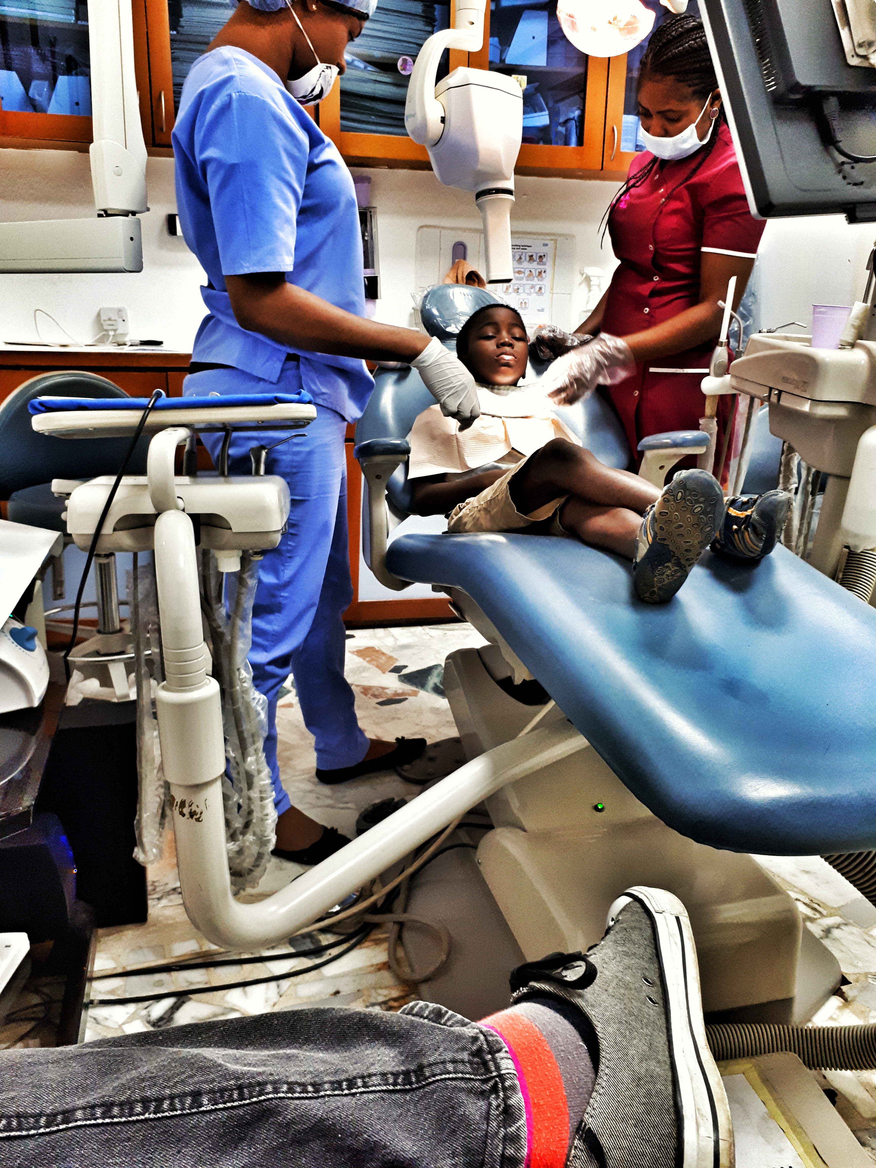 This is an image of "African people at work" from Nigeria